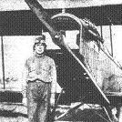 1918 photo of Felix Rigau Carrera, Puerto Rico's first pilot. Sourcce "El Imparcial"; October 20, 1920; #1177 Licensing Image ir pre-1923 and therefore free of copyright laws.